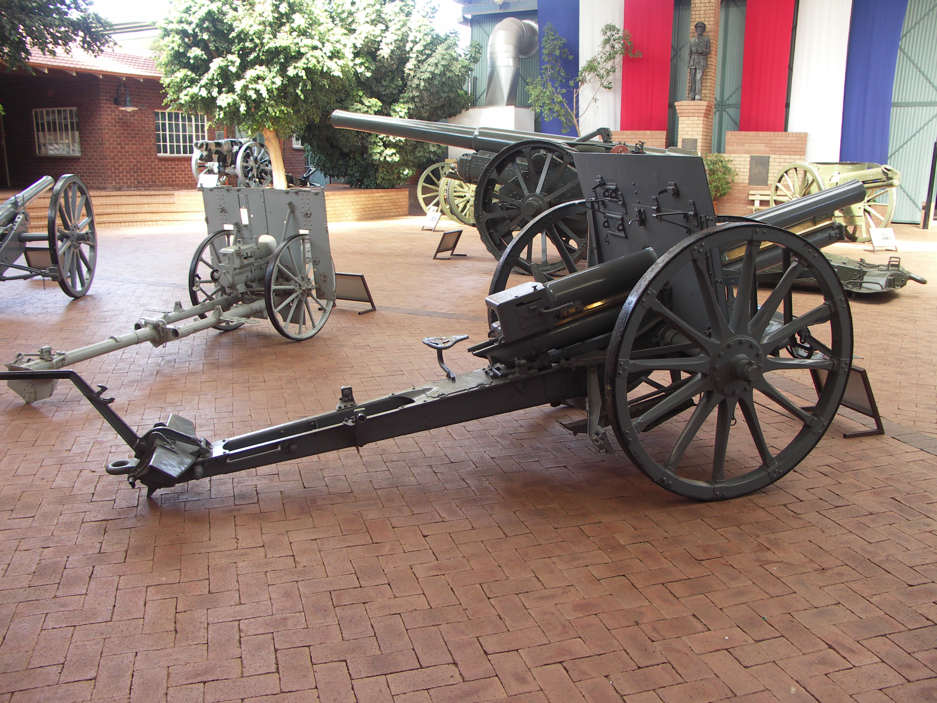 Various artillery pieces in the South African National Museum of Military History. Identified guns : 8 cm FK M. 5/8 Austria-Hungary field gun (centre-front) 15 cm sFH 02 (left-centre far background) Ehrhardt 7.5 cm Model 1904 mountain gun (left-centre foreground) BL 6-inch Mk XIX heavy field gun (right-centre background) BLC 15 pounder field gun (far right background)